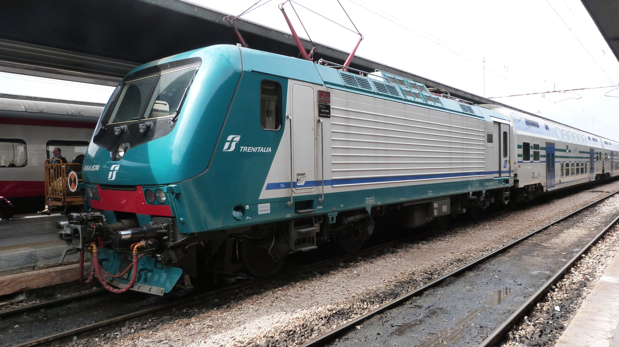 The E464 is a class of Italian railways electric locomotives. They were introduced in the course of the 1990s for hauling light trains, especially for commuter service. They were acquired by FS Trenitalia to replace the old E424 and E646, dating from the 1940s and 1950s. The class was originally designed by ABB Trazione, later ADTranz (now part of the Bombardier group), and produced in the Italian plant of Vado Ligure.